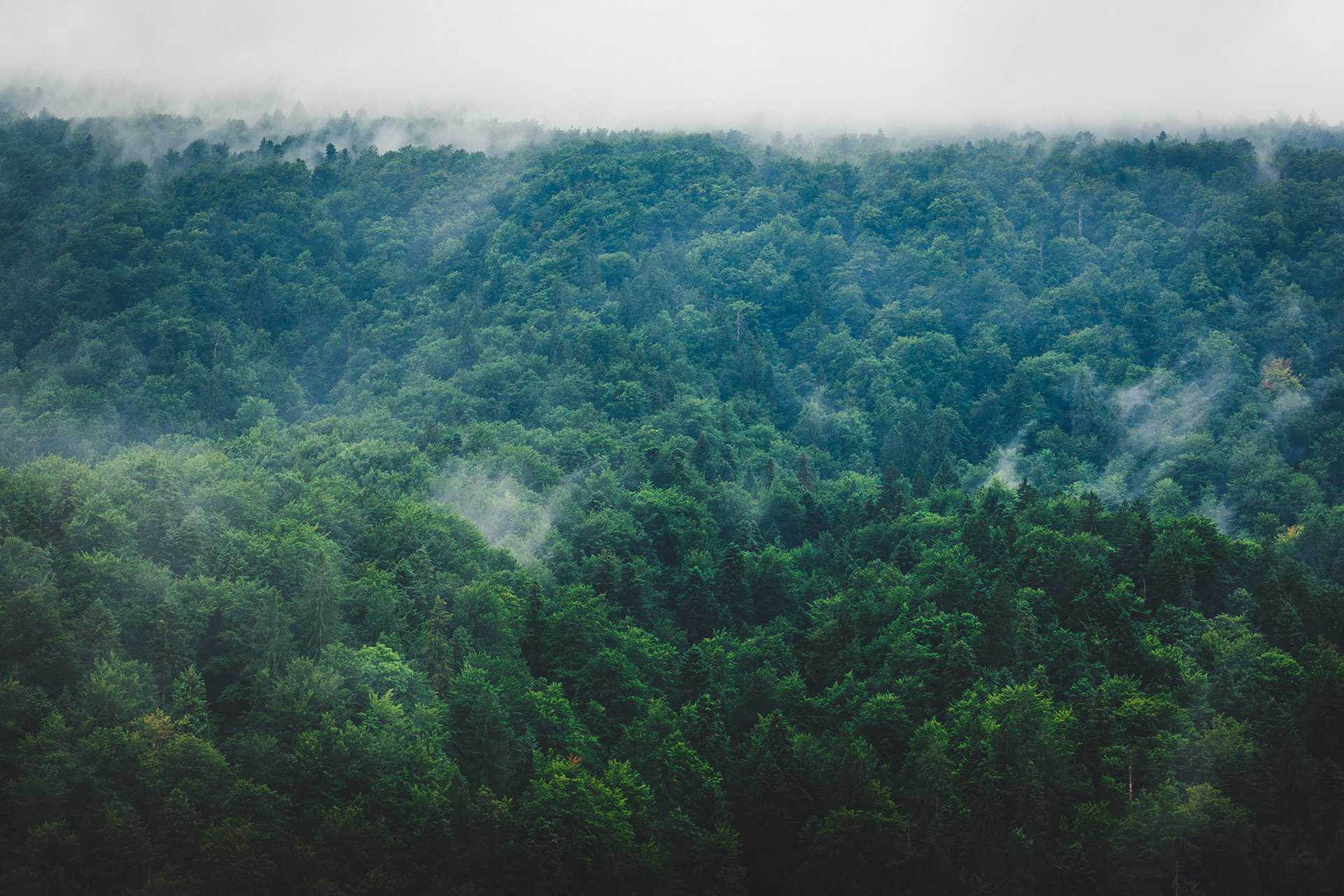 500px provided description: Croatia, Plitvice Lakes Instagram kavalerov.name (hi-res & free) [#trees ,#fog ,#forest ,#clouds ,#summer ,#foliage ,#natural ,#green ,#countryside]